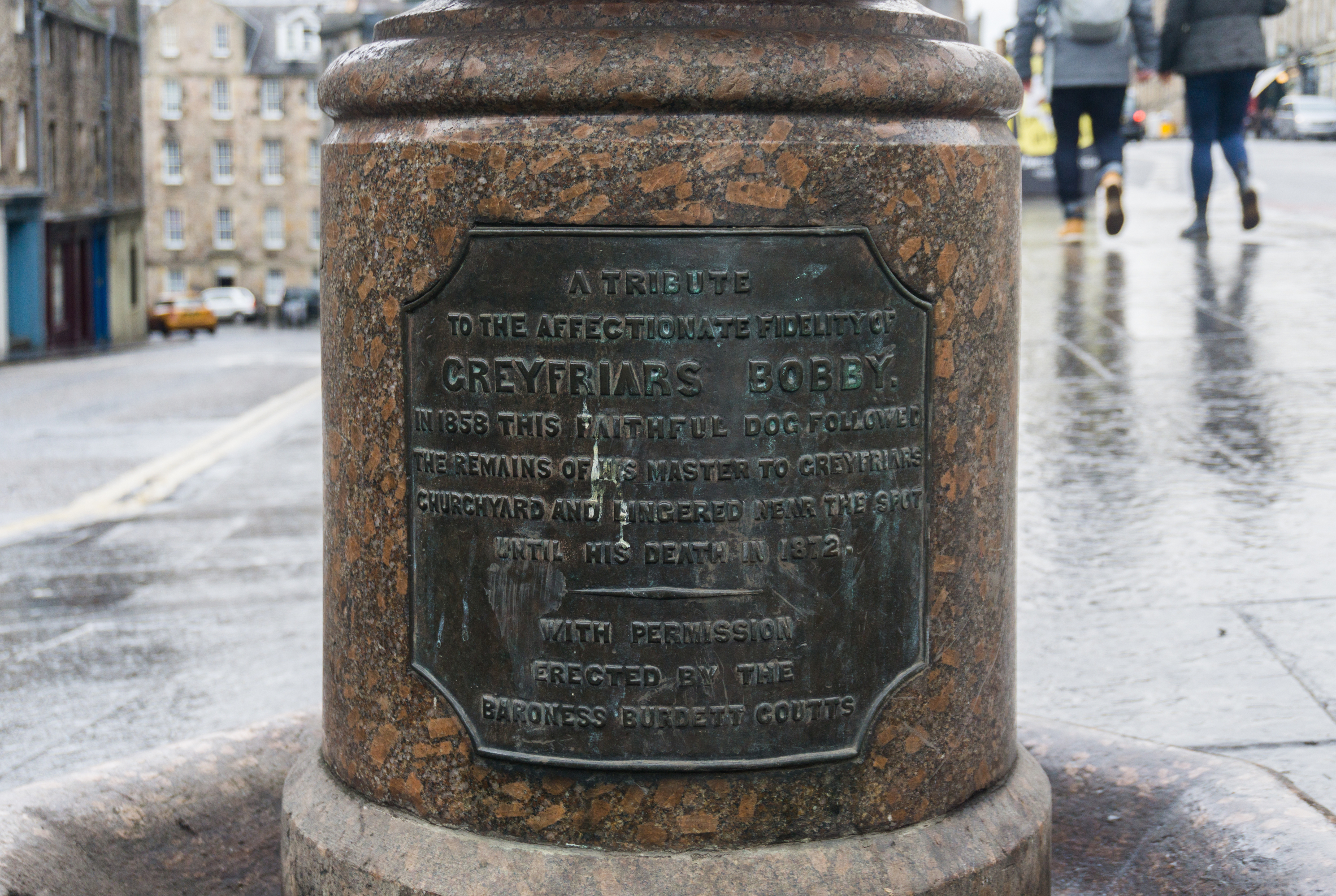 Edinburgh, George Iv Bridge, Greyfriars Bobby Fountain Wikidata has entry Q17570789 with data related to this item.